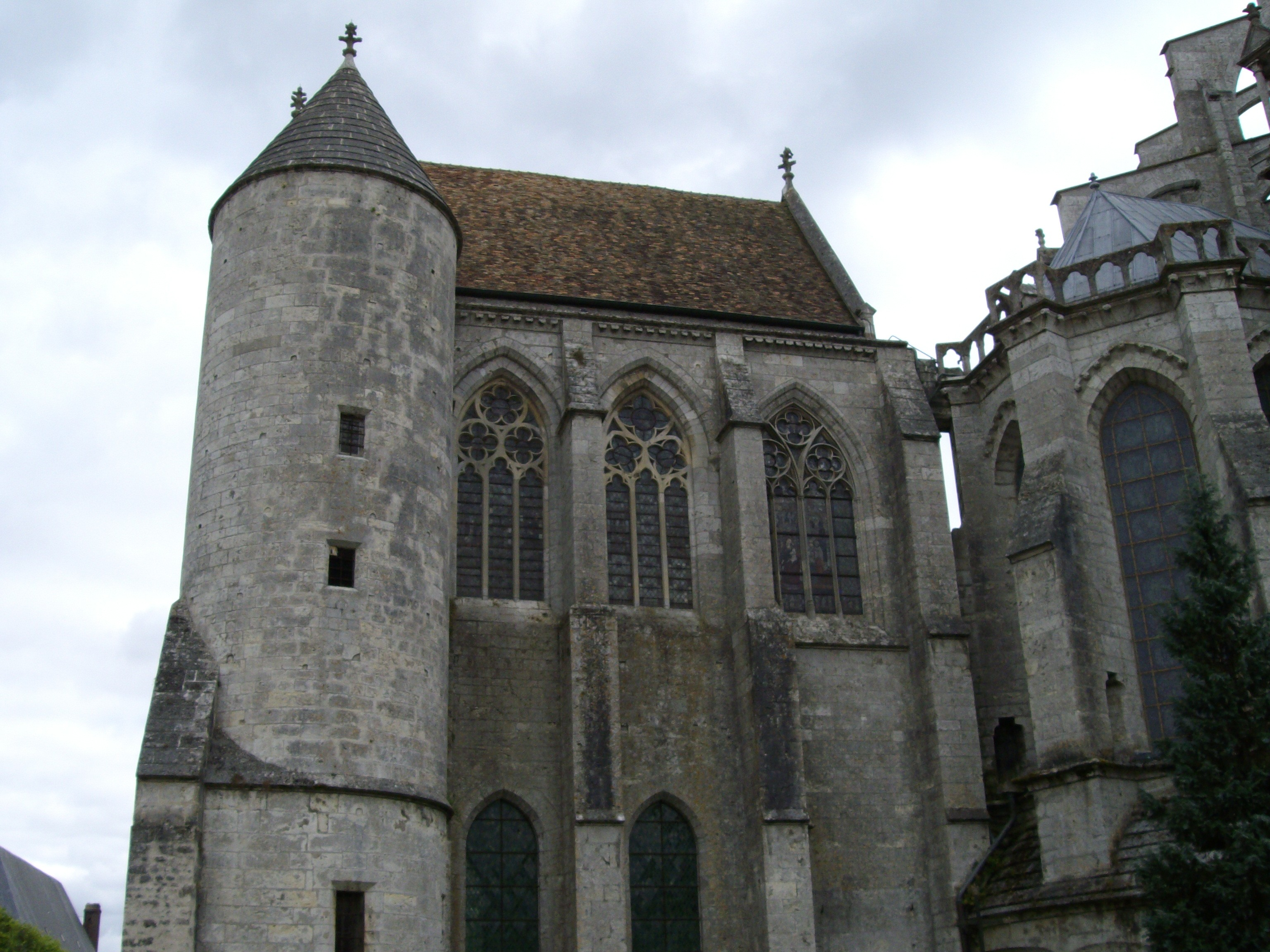 Chevet of the Chartres Cathedral in Chartres (France)